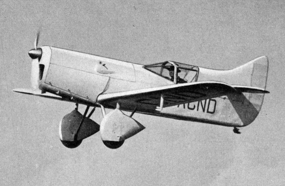 Percival E1 Mew Gull photo from Le Pontentiel Aérien Mondial 1936